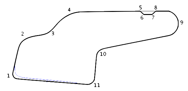 The short course at Watkins Glen International.